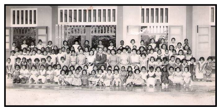 Kenangan 1955